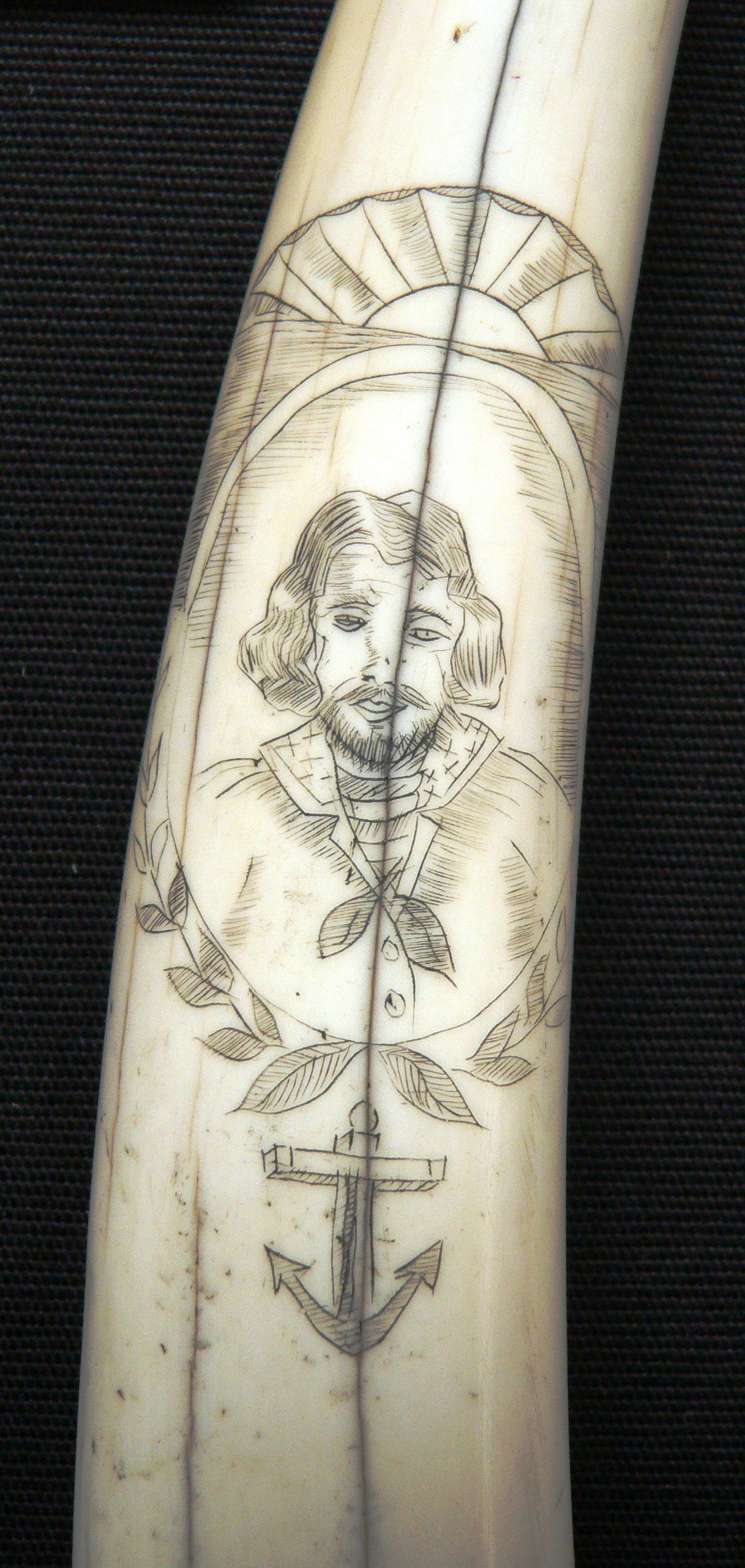 Closeup of sailor's image from image: "Scrimshaw Walrus Tusks" (A pair of walrus tusks depicting a sailor and a lady) circa 1900, CT or Rhode Island.